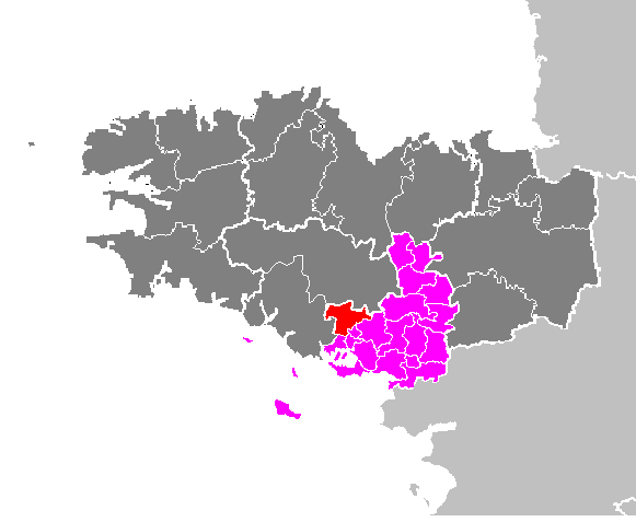 Maps of arrondissements and cantons of France: Arrondissement de Vannes - Canton de Grand-Champ.PNG